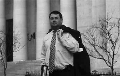 This is a picture of Jamie Callender.